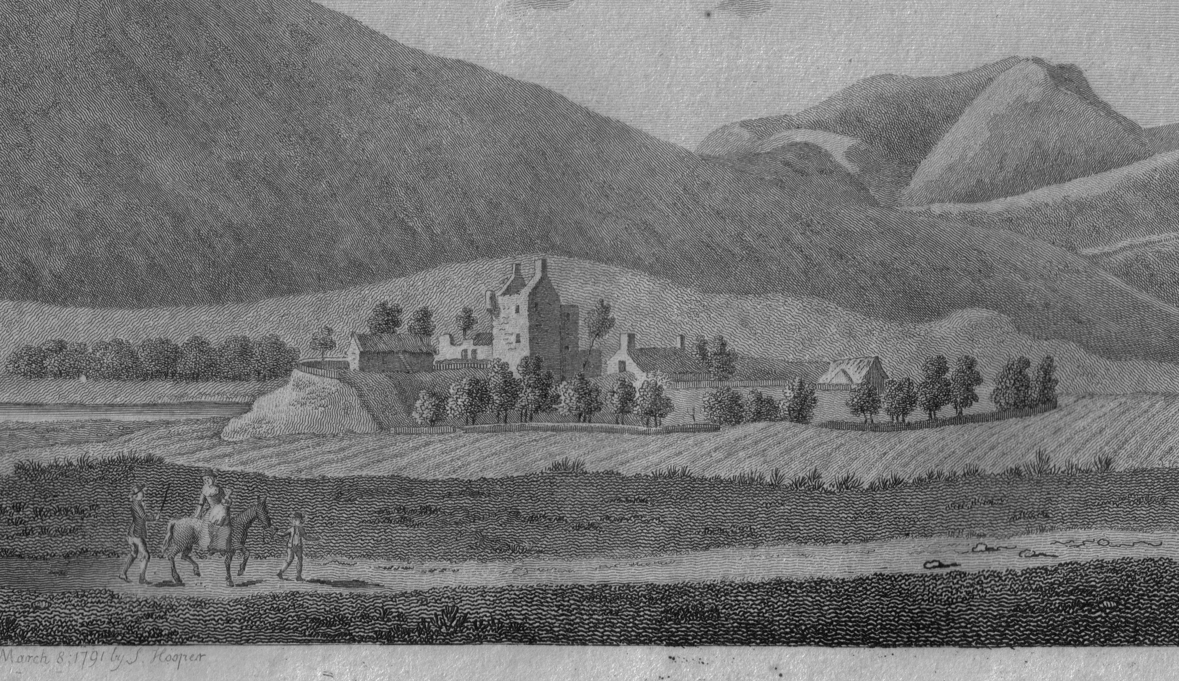 A view of Drumelzier Castle in Tweedale, SCottish Borders in 1790.